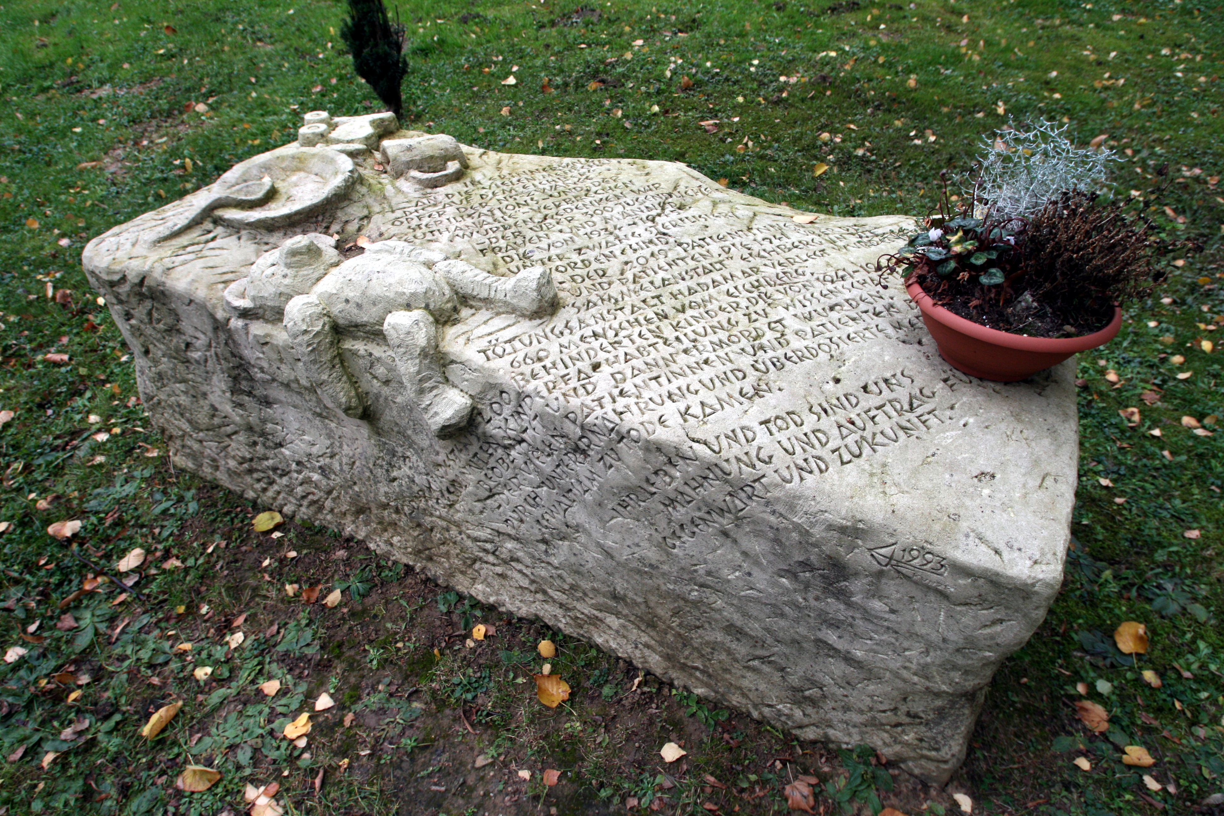 Euthanasia memorial at Landesheilanstalt Eichberg, Eltville, Germany. 1993 by Uwe Kunze